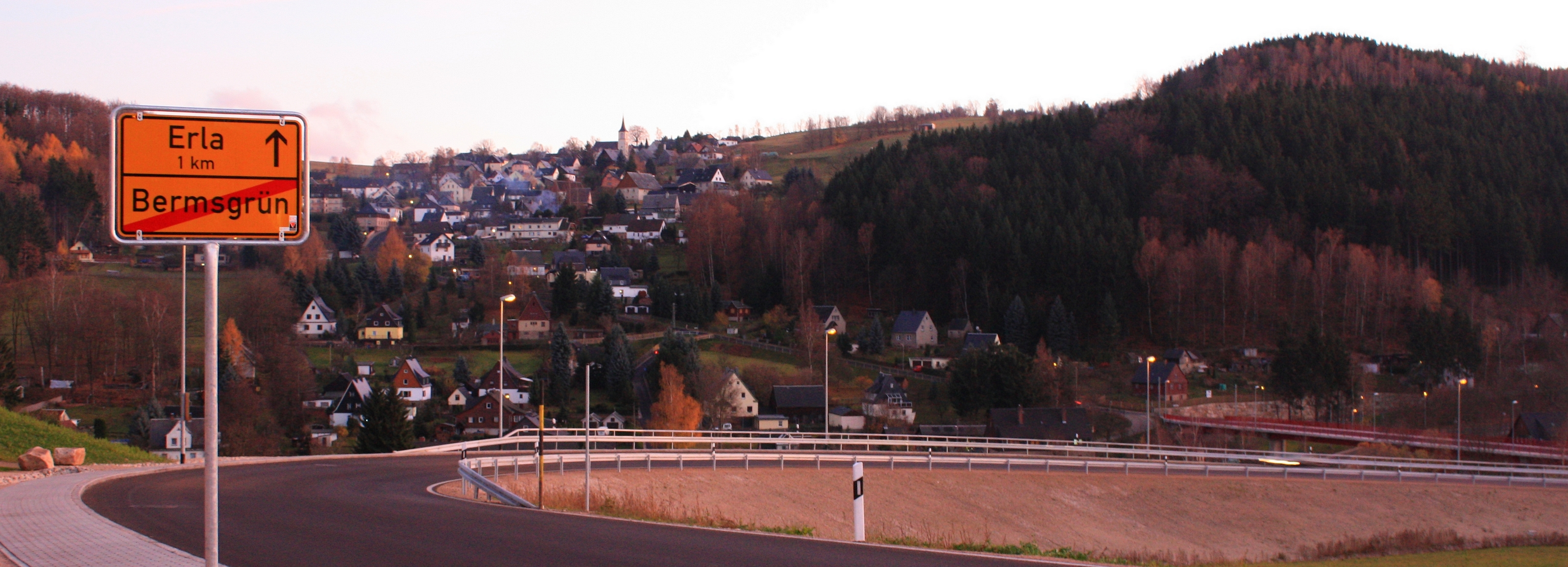 Erla-Crandorf